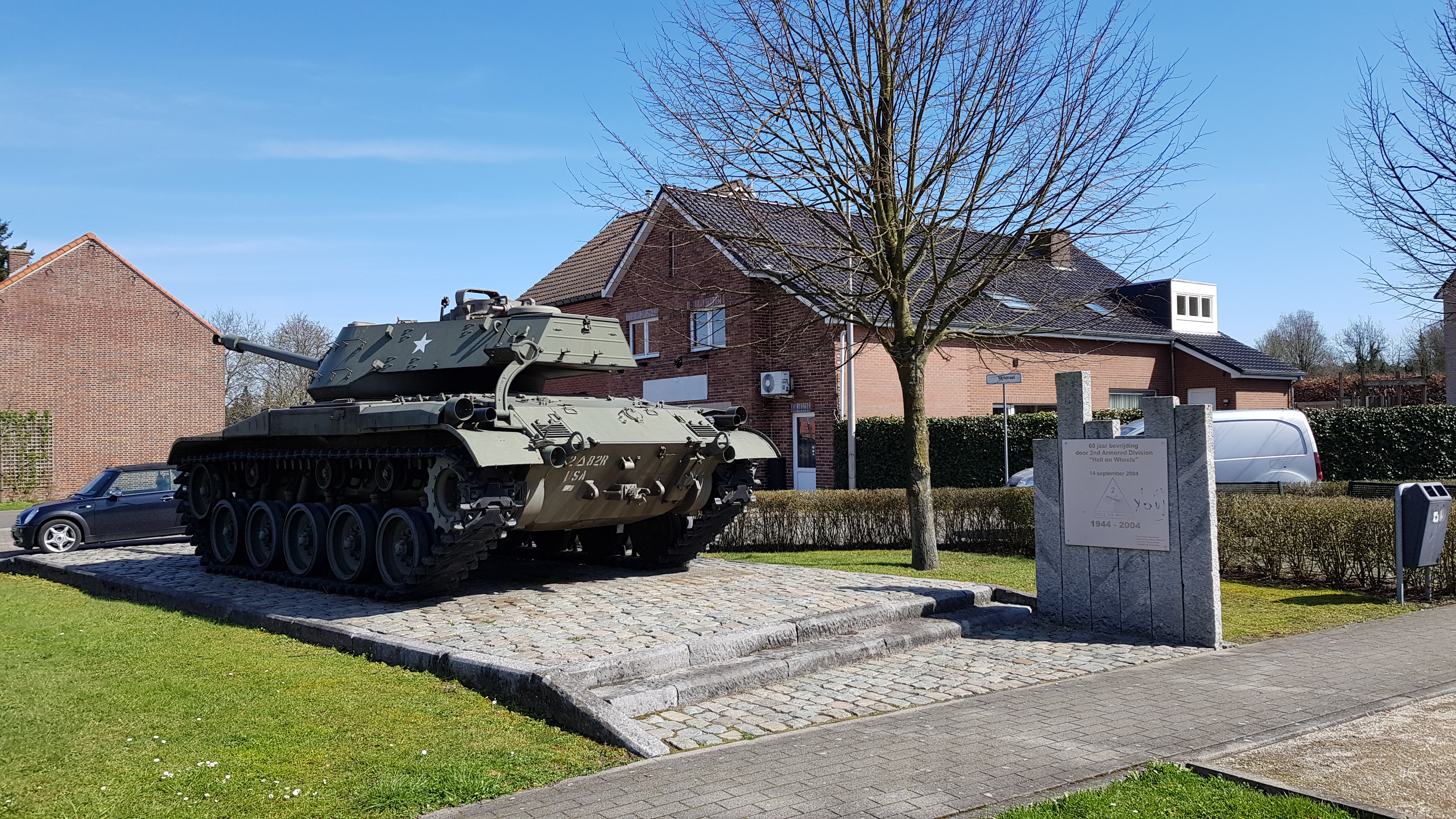 Tank memorial in Wiemesmeer, Zutendaal, Belgium